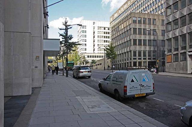 Arundal Street towards Strand, London WC2